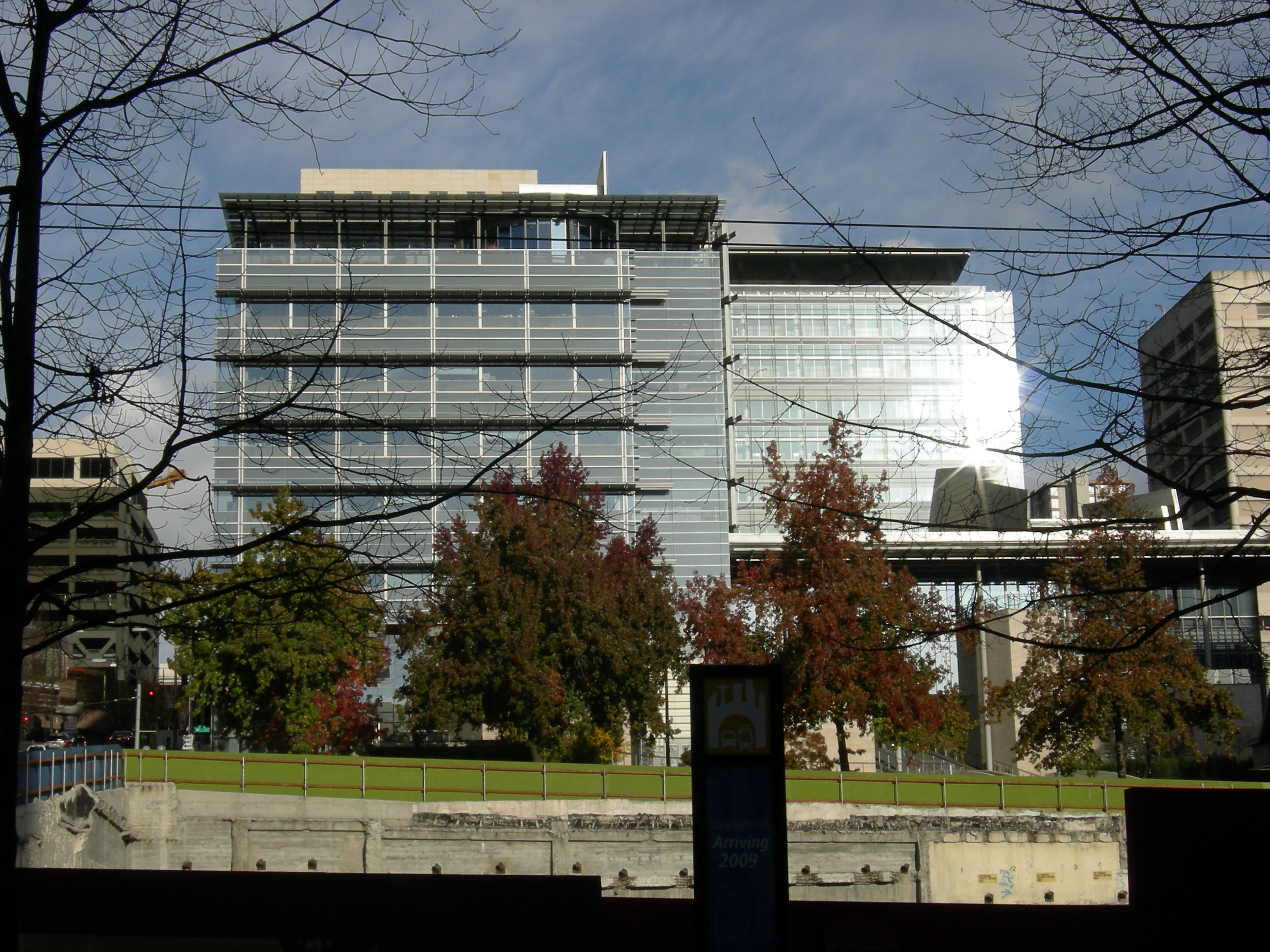 Seattle City Hall Seattle, Washington, USA. Seen here from Third Avenue; this view will soon be obscured by a building.